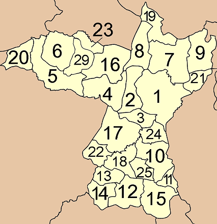 Map of Khon Kaen province, Thailand, with the districts (Amphoe) numbered. Mueang Khon Kaen (อำเภอเมืองขอนแก่น) Ban Fang (อำเภอบ้านฝาง) Phra Yuen (อำเภอพระยืน) Nong Rhuea (อำเภอหนองเรือ) Chum Phae (อำเภอชุมแพ) Si Chomphu (อำเภอสีชมพู) Nam Phong (อำเภอน้ำพอง) Ubolratana (อำเภออุบลรัตน์) Kranuan (อำเภอกระนวน) Ban Phai (อำเภอบ้านไผ่) Pueai Noi (อำเภอเปือยน้อย) Phon (อำเภอพล) Waeng Yai (อำเภอแวงใหญ่) Waeng Noi (อำเภอแวงน้อย) Nong Song Hong (อำเภอหนองสองห้อง) Phu Wiang (อำเภอภูเวียง) Mancha Khiri (อำเภอมัญจาคีรี) Chonnabot (อำเภอชนบท) Khao Suan Kwang (อำเภอเขาสวนกวาง) Phu Pha Man (อำเภอภูผาม่าน) Sam Sung (sub-district) (กิ่งอำเภอซำสูง) Khok Pho Chai (sub-district) (กิ่งอำเภอโคกโพธิ์ไชย) Nong Na Kham (sub-district) (กิ่งอำเภอหนองนาคำ) Ban Haet (sub-district) (กิ่งอำเภอบ้านแฮด) Non Sila (sub-district) (กิ่งอำเภอโนนศิลา) Wiang Kao (sub-district) (กิ่งอำเภอเวียงเก่า)